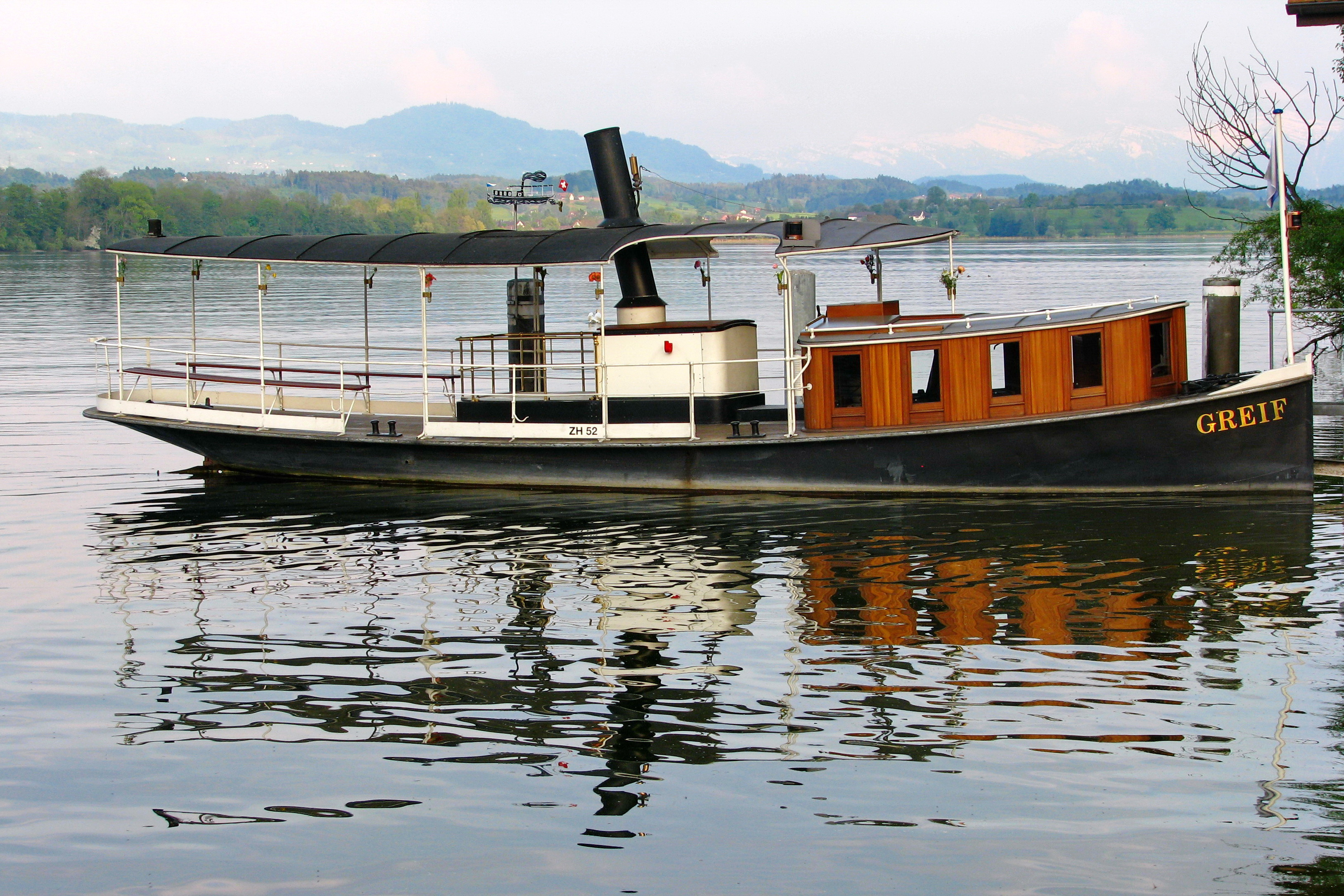 Motorship Greif on Greifensee at Maur harbour